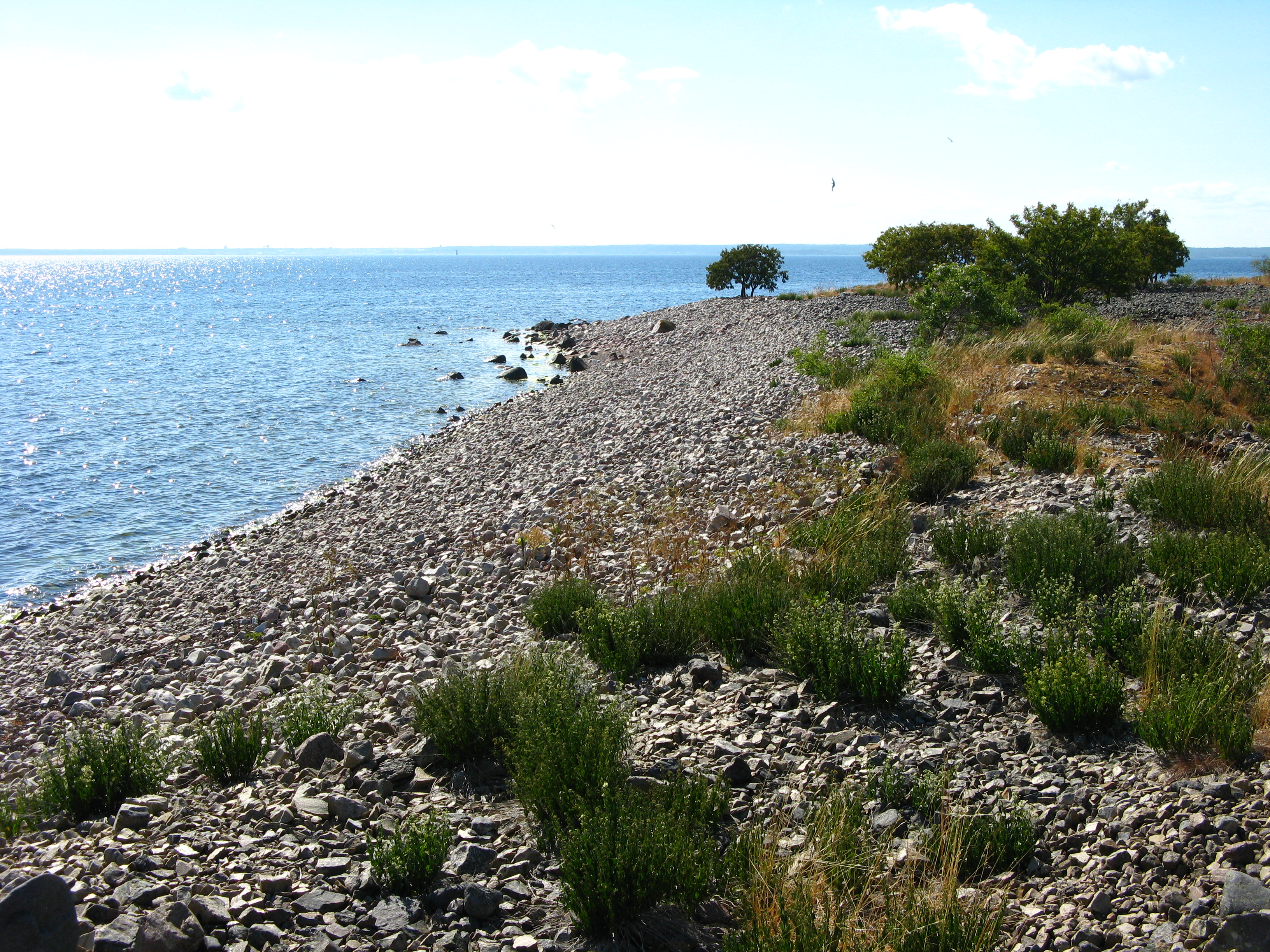 The island of Fur near Oskarshamn, Sweden.